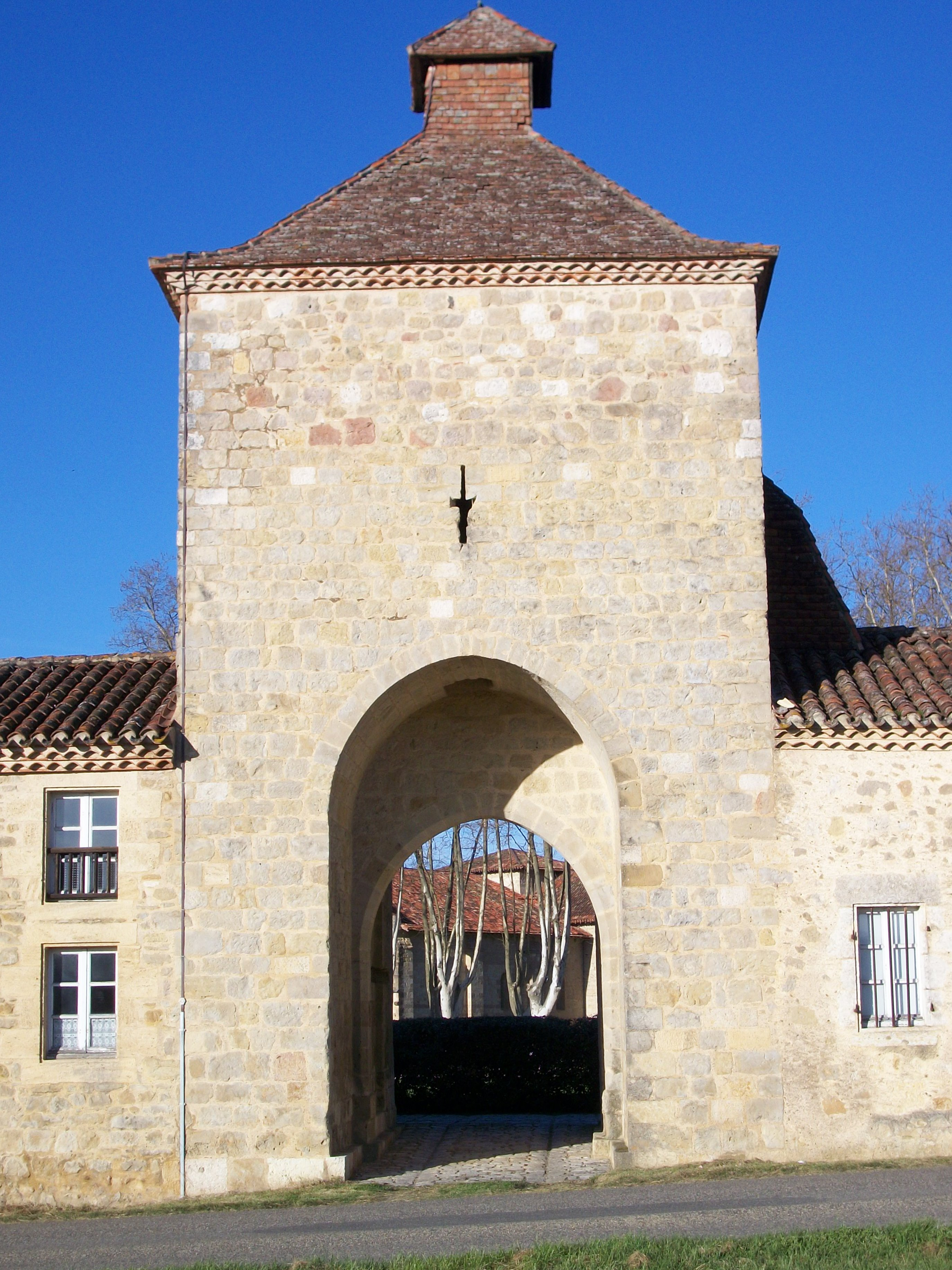 Gate tower of Flaran Abbey, Valence-sur-Baïse, Gers, France